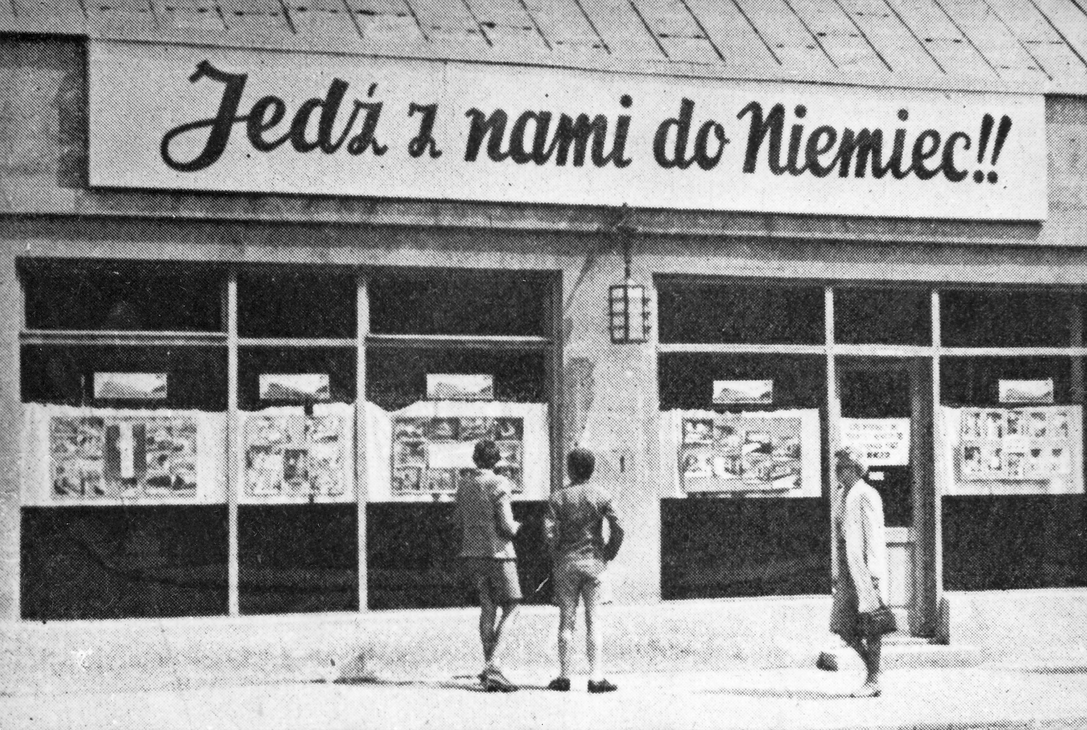 Arbeitsamt Draft bureau at 68 Nowy Świat Street in Warsaw.